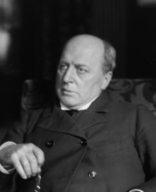 Accession Number: 1974:0056:0918 Maker: William M. Vander Weyde (American 1871–1929) Title: Henry James Date: ca. 1900 Medium: negative, gelatin on glass Dimensions: 8.5 x 6.5 inches George Eastman House Collection General – information about the George Eastman House Photography Collection is available at For information on obtaining reproductions go to